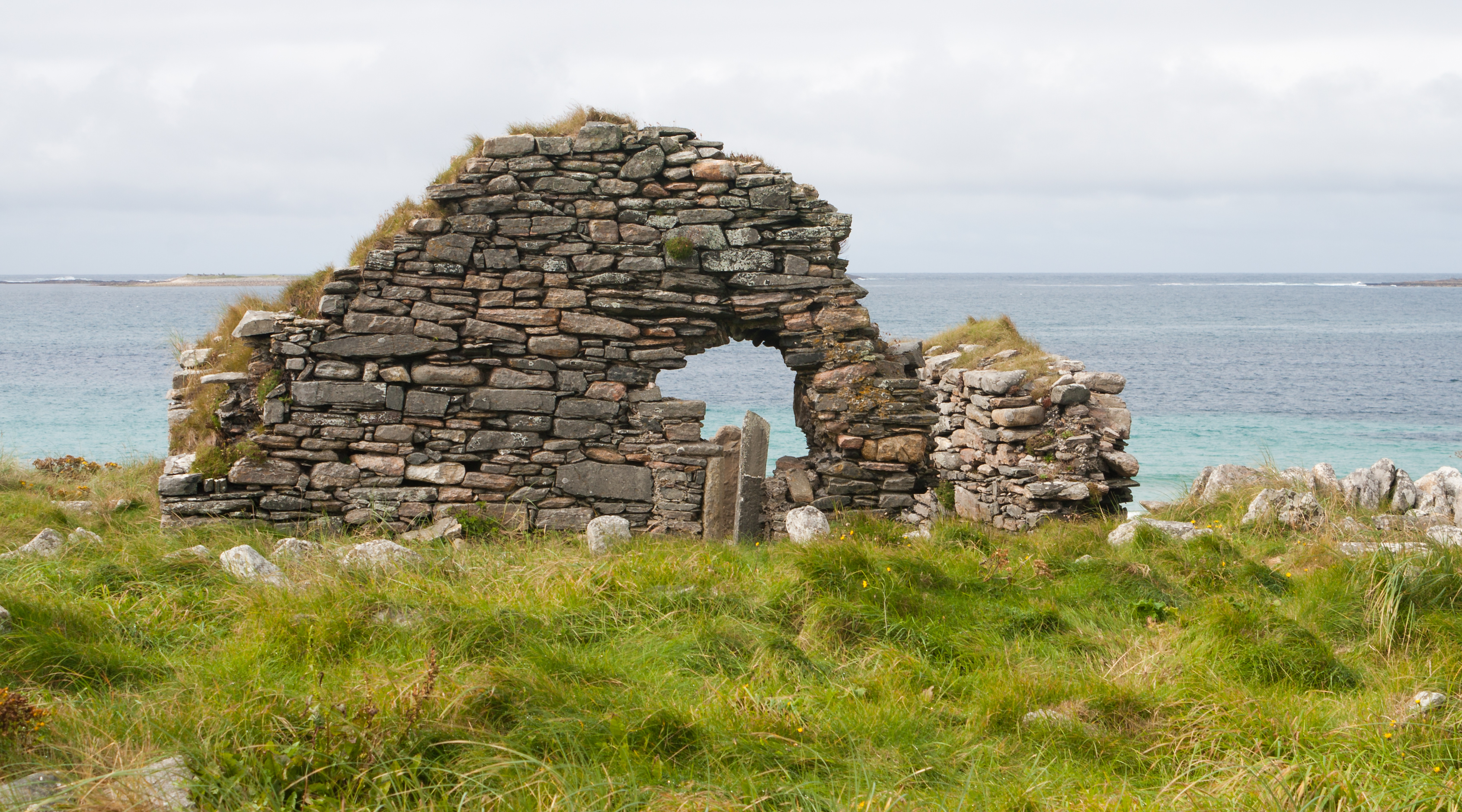 East gable of Cross Priory with Inishglora in the background (left of the ruin in the foreground), looking west.